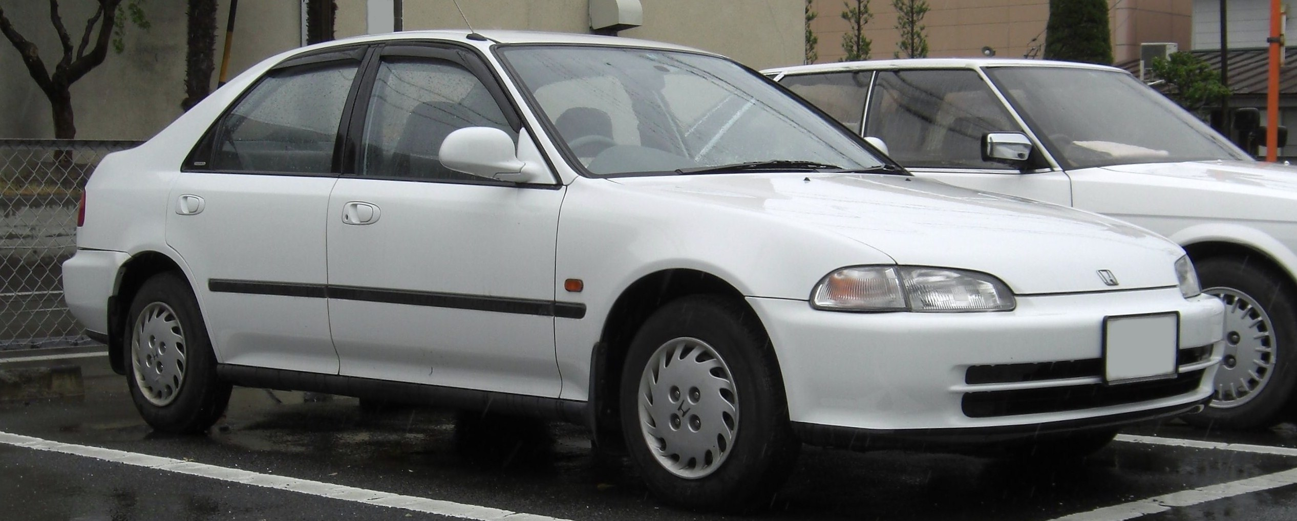 Honda Civic Ferio